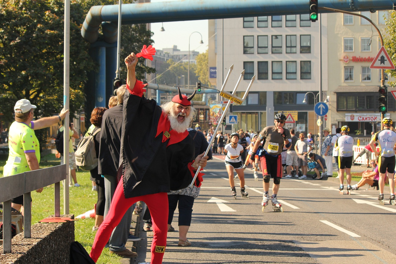 The Red Devil at Koln Marathon 2011, at Cologne Germany